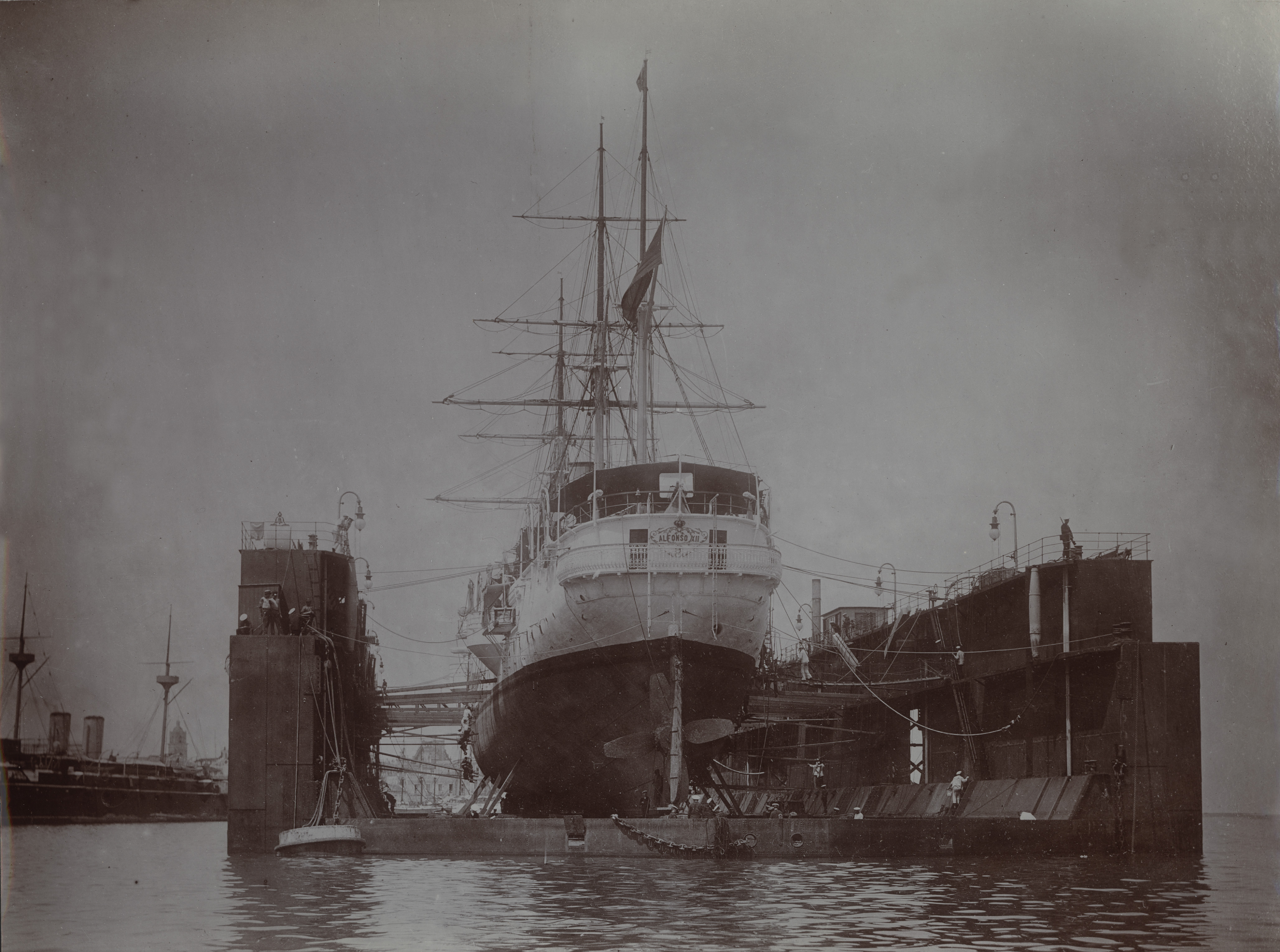 Format: Fotopositiv Dato / Date: 1898 Fotograf / Photographer: Ukjent Sted / Place: Havana, Cuba Wikipedia: Spanish cruiser Alfonso XII (1898) Wikipedia: Swan Hunter Lenke / Link: Oswego Daily Times, 16 Mai 1898 p. 1 Eier / Owner Institution: Trondheim byarkiv, The Municipal Archives of Trondheim Arkivreferanse / Archive reference: Tor.H44.L01.F9340 HAVANA'S FLOATING DOCK AND THE ALFONSO XII. Uncle Sam needs Havana's great floating drydock and will doubtless get it. The dock was built in England [C. S. Swan & Hunter, Ltd. ?] and towed to Cuba. The cut shows the spanish cruiser Alfonso XII in the dock. Kilde: Oswego Daily Times, 16 Mai 1898 p. 1